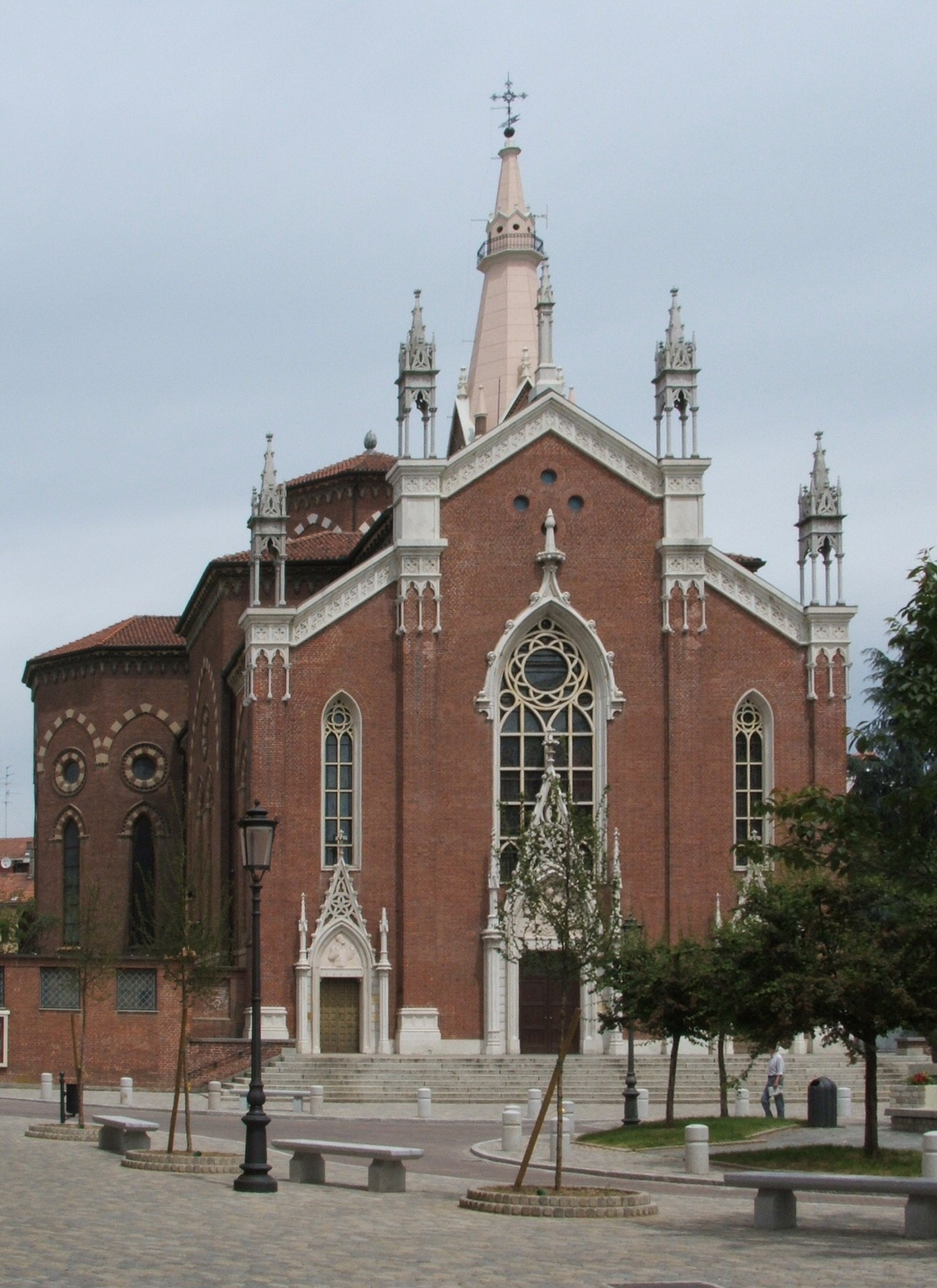 Novara, Piemonte, Italy - Church of Sacro Cuore di Gesù